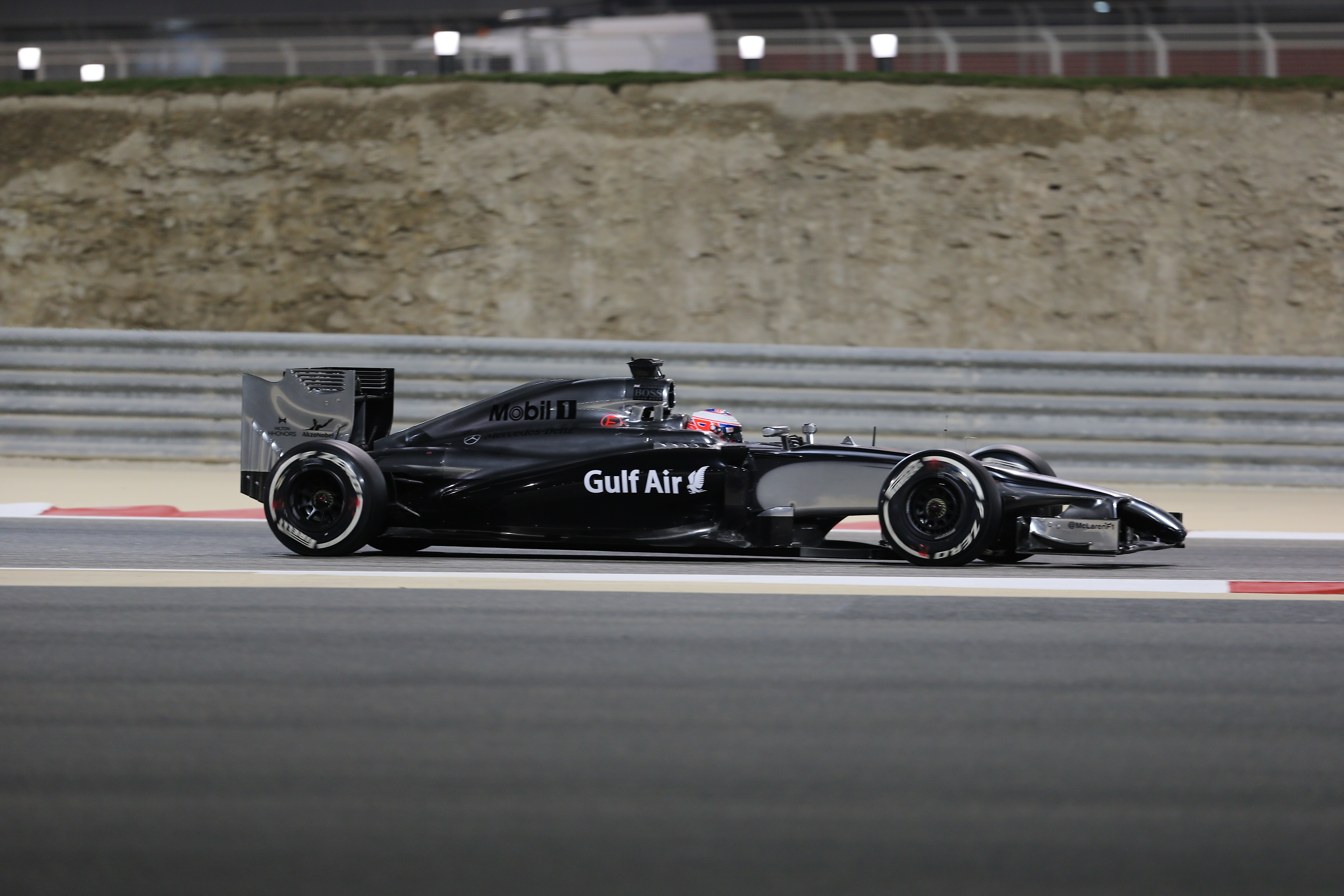 Kingdom of Bahrain